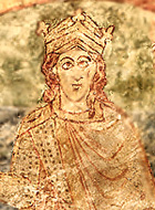 Vratislav II King of Bohemia